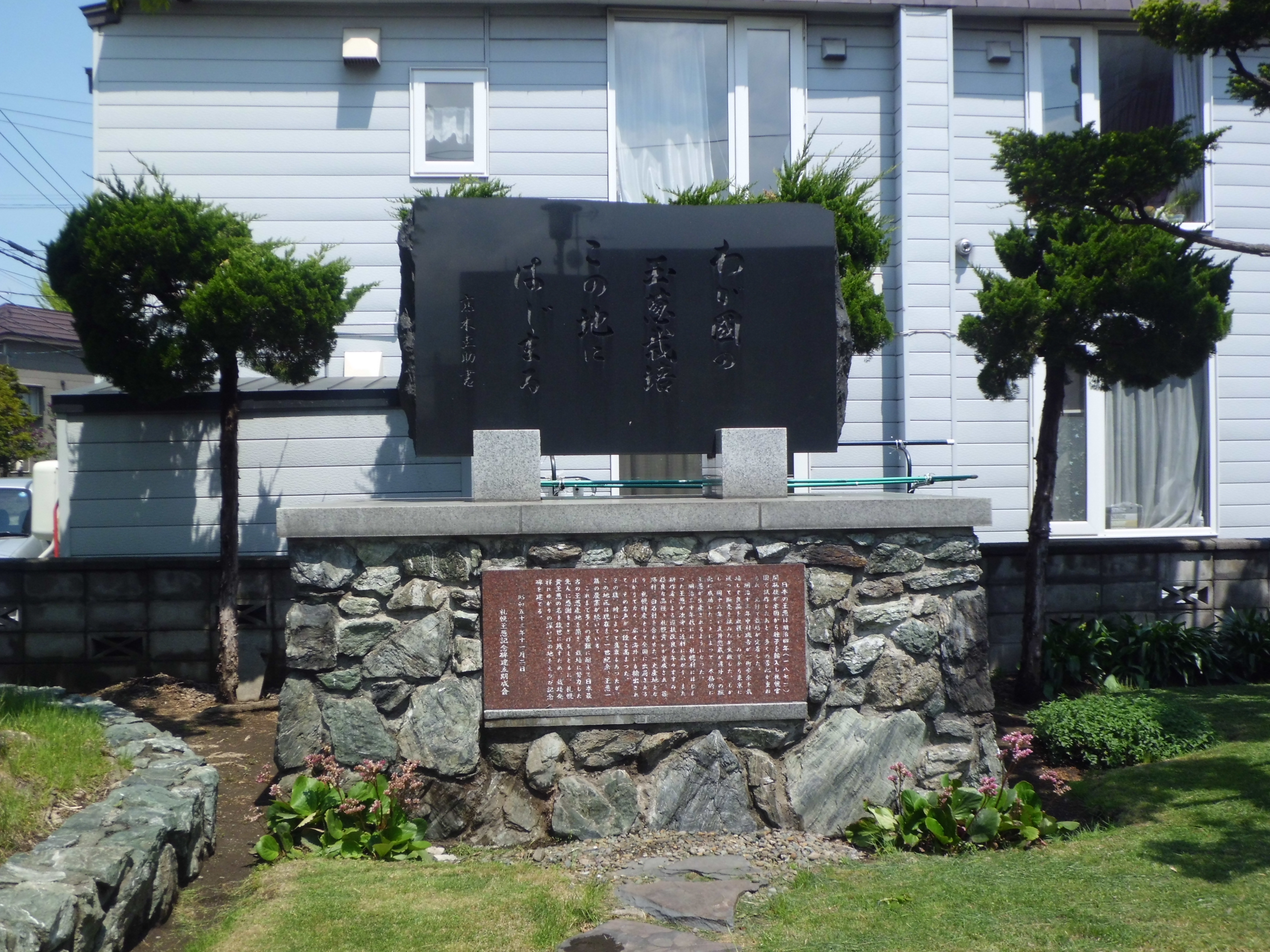 Monument to Onions of Sapporo